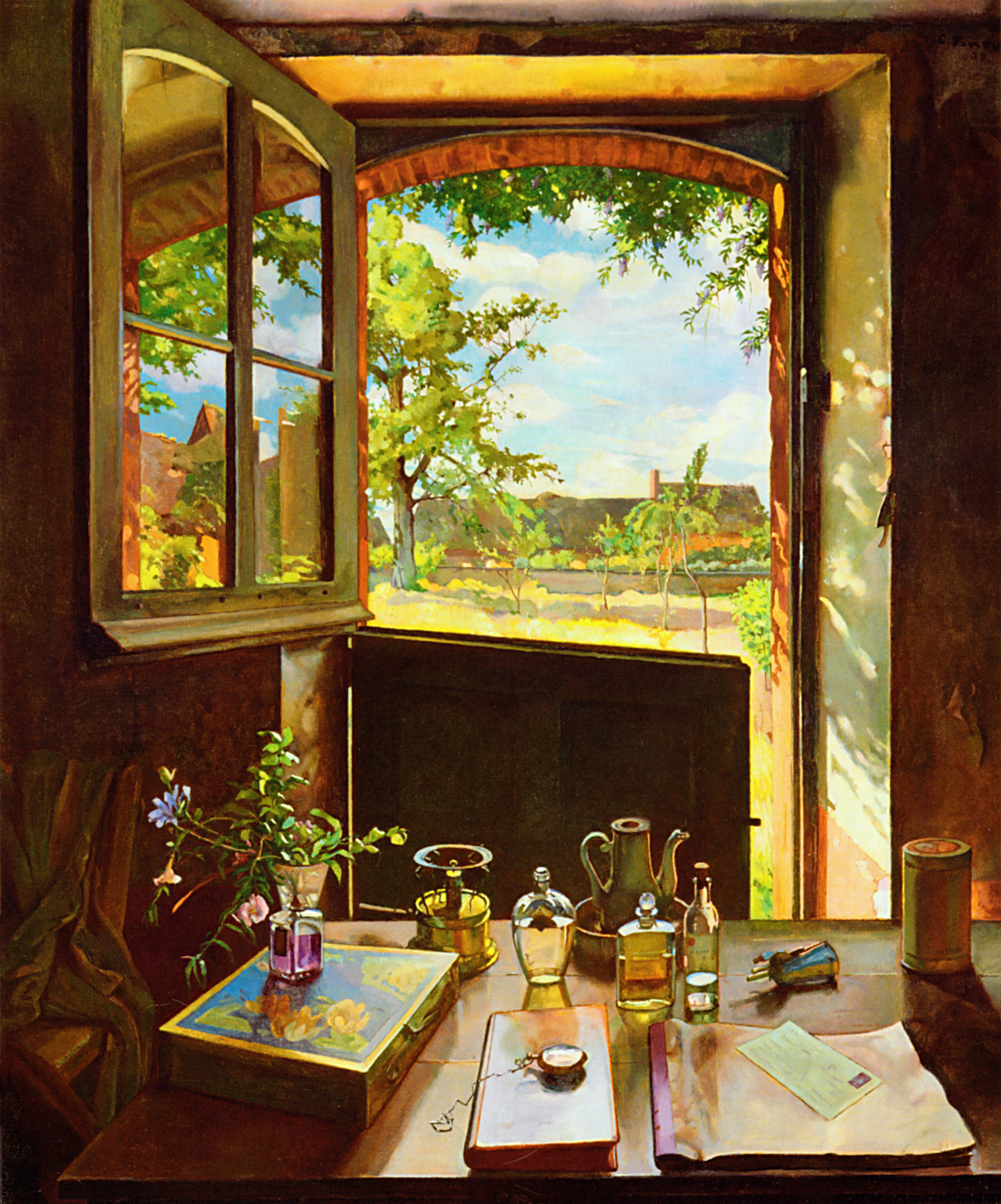 Open door on a garden View through a window signed and dated 'C. Somov/1934' (centre right) oil on paper laid on canvas 18 1/8 x 15 in. (46 x 38.1 cm.)